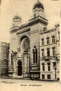 Fair use - Old postcard from 1893.